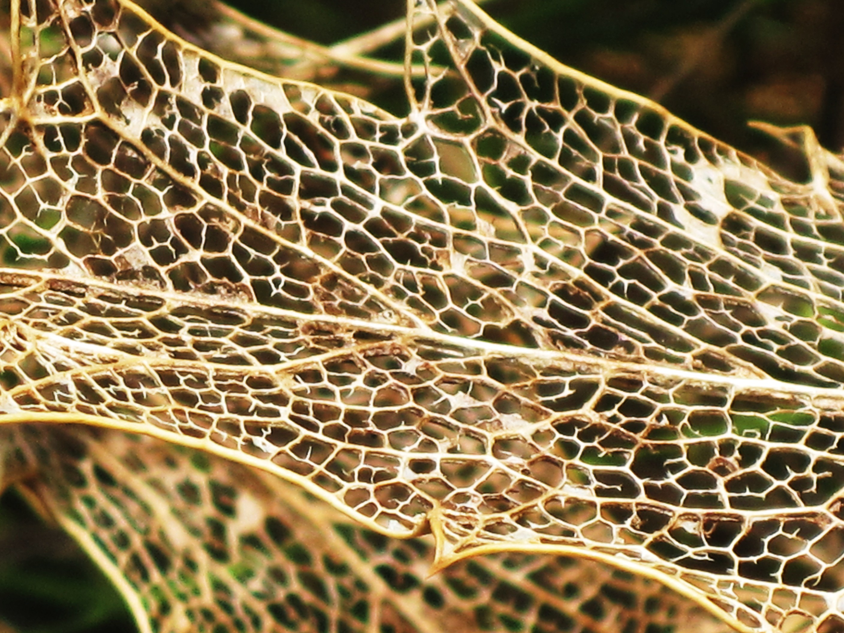 Cirsium sp. (Thistle) leaf vein skeleton, Westenschouwen, the Netherlands